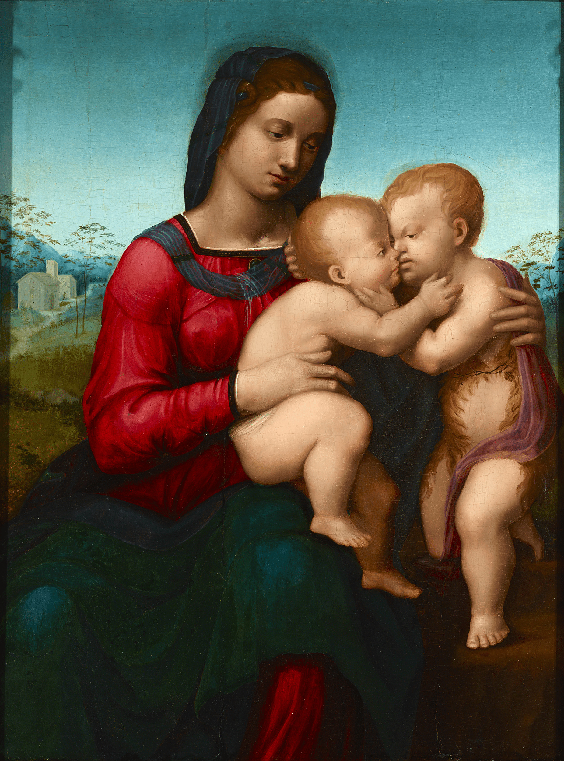 Virgin and Child with the Infant Saint John by Domenico Puligo. Oil on panel. Circa 1515. Private collection.